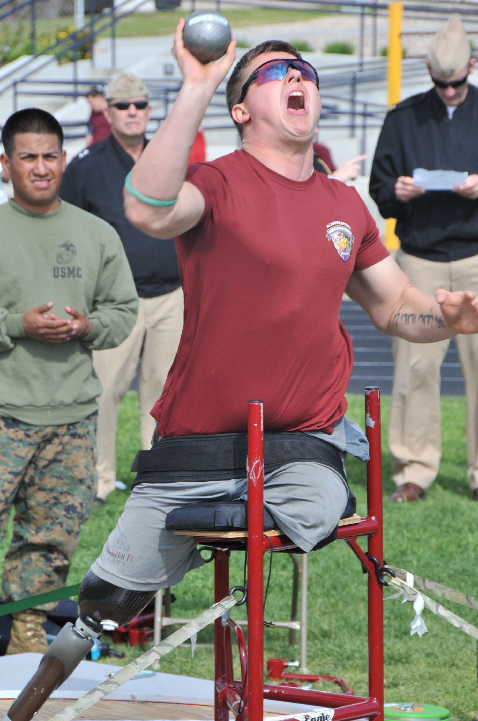 Competitors participated in the shot putt during the 2012 U.S. Marine Corps Wounded Warrior Trials, Feb. 19, at Camp Pendleton. SEAC Sgt. Maj. Bryan Battaglia visited with the competitors and served as a medal presenter during the trials. Office of the Chairman of the Joint Chiefs of Staff Photo by Master Sgt. Terrence Hayes Date Taken:02.19.2012 Location:US Read more